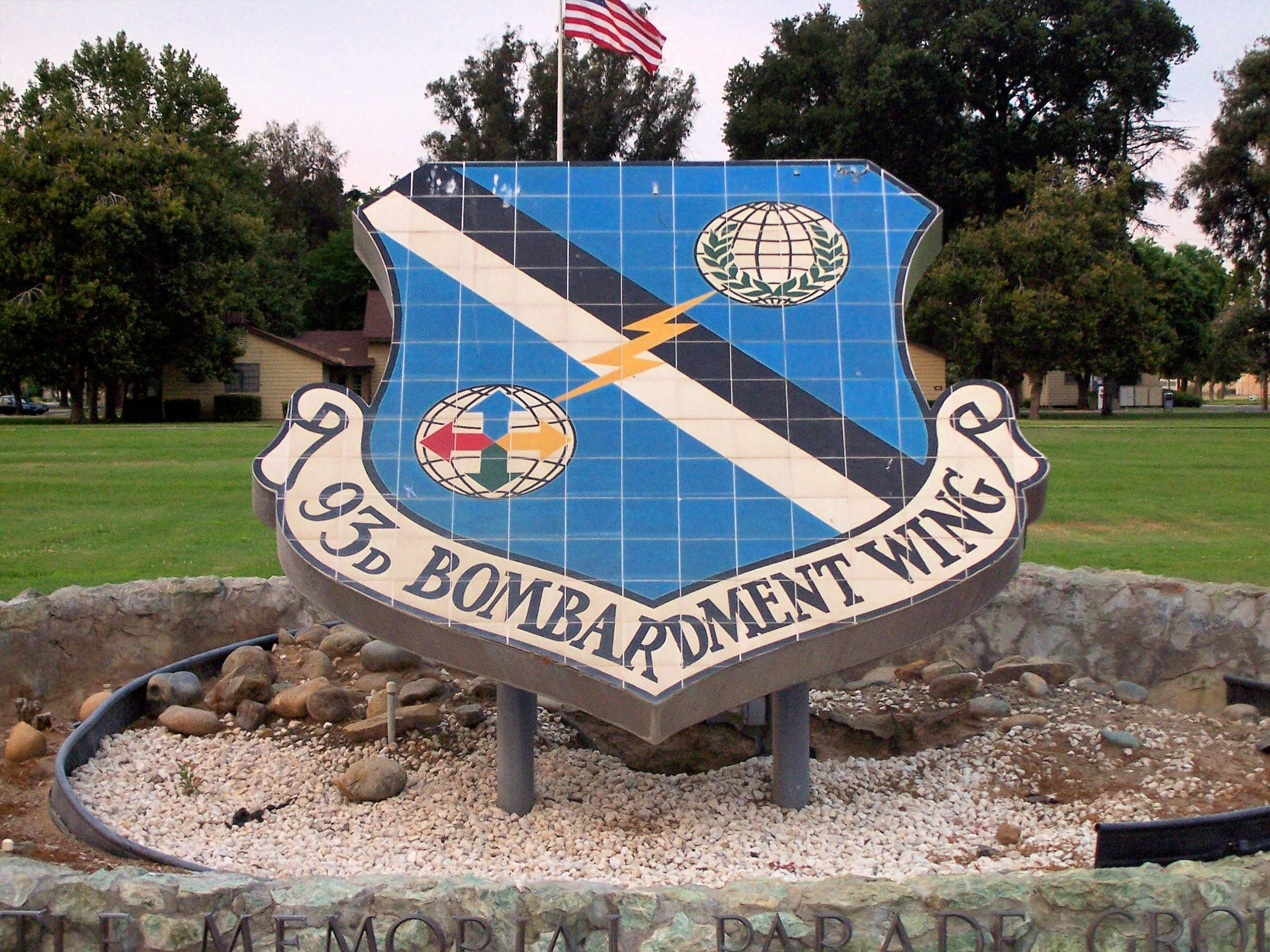 Entrance to Castle Air Force Base. Picture taken on July 12, 2006.